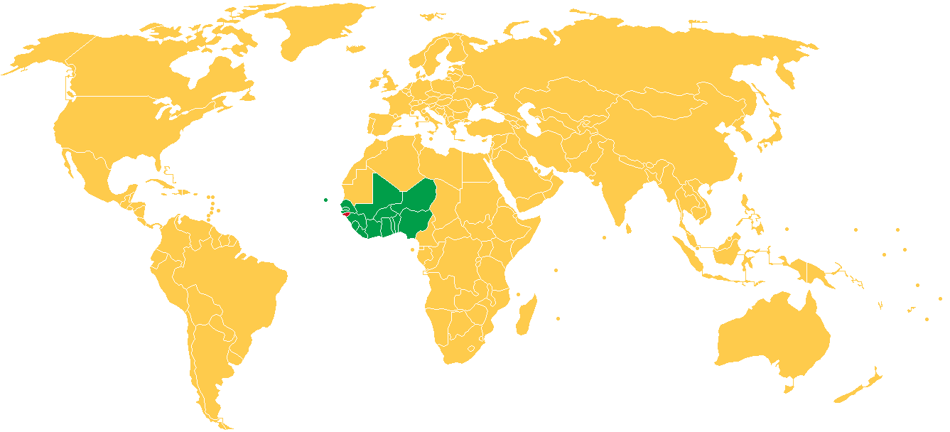 Visa policy of Guinea-Bissau Guinea-Bissau Visa exempt Visa on arrival/eVisa